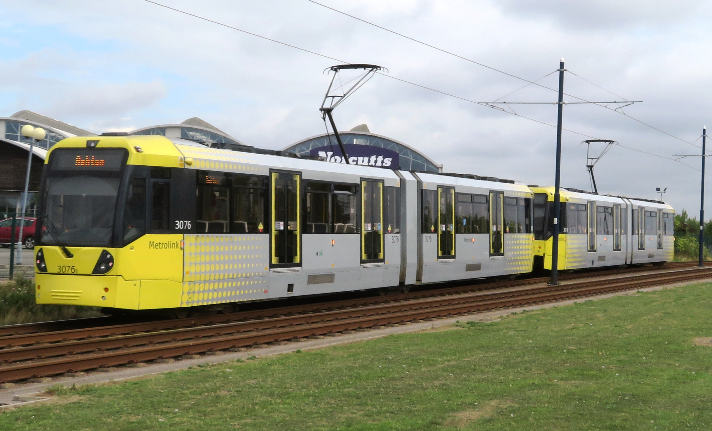 Tram headed towards Ashton from .... slightly west of Ashton